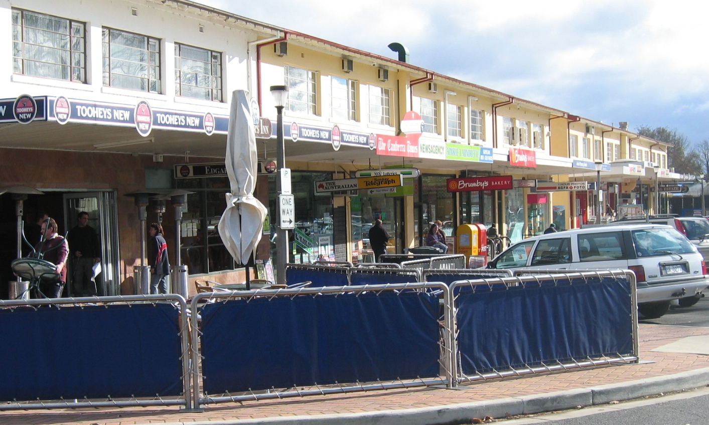 Shops at Ainslie, Australian Capital Territory. Photo taken by User:Adz on 11 Aug 2005.